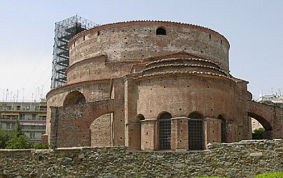 The Tomb of Galerius, now the Church of Agios Giorgios or Church of the Rotonda, in Thessaloniki, Greece.